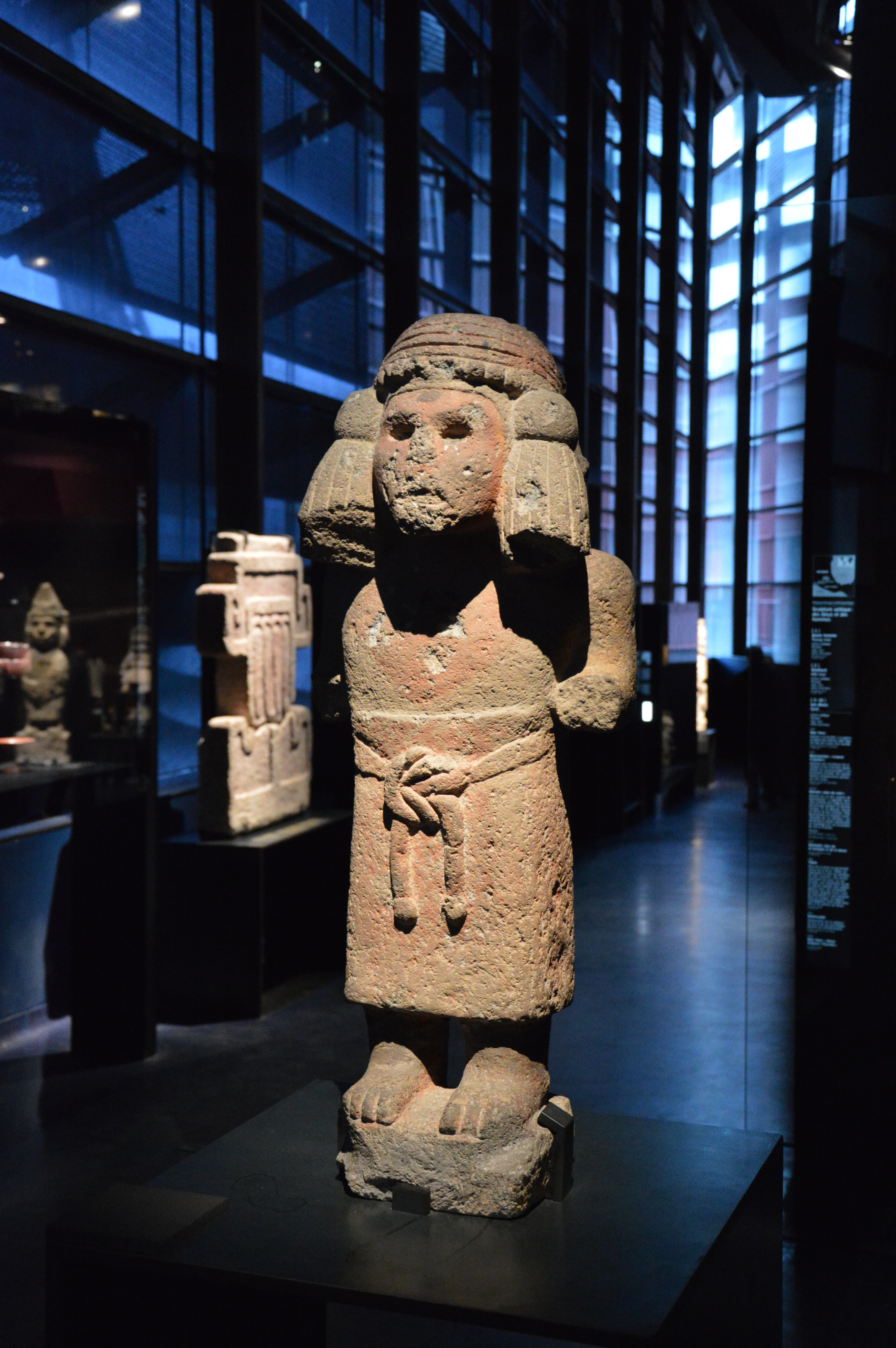 Chalchiuhtlicue.